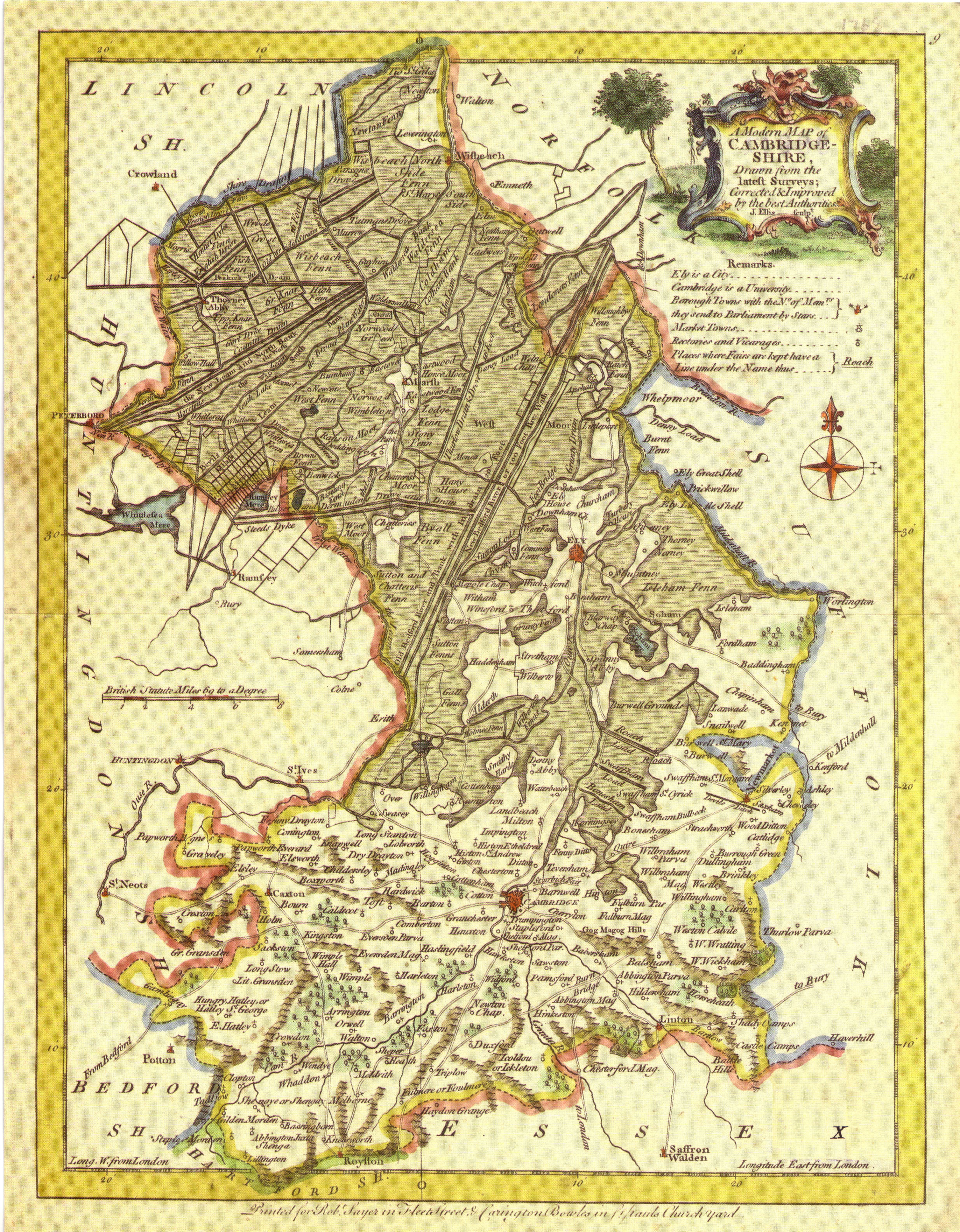 Joan Blaeu (1648) Regiones Inundatae - The Fens